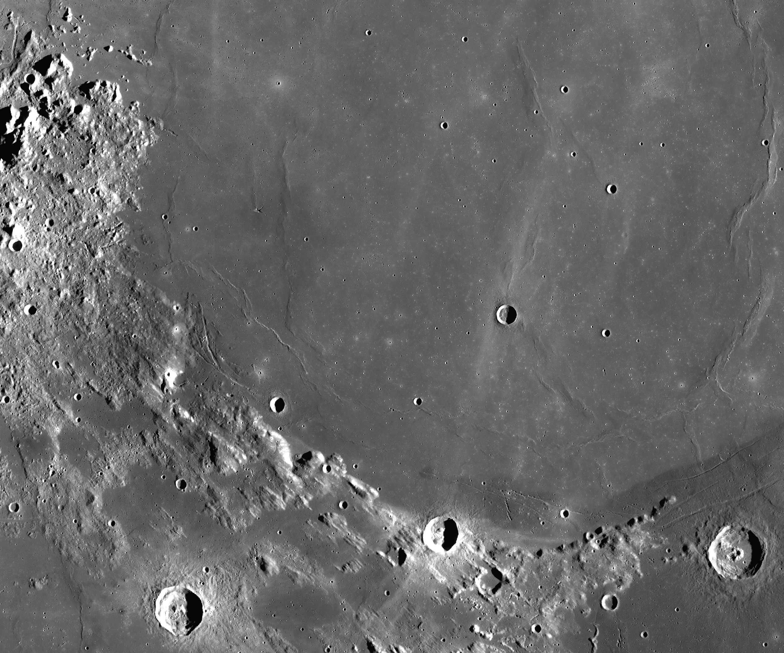 Montes Haemus on the Moon, along the southwestern edge of Mare Serenitatis. Mosaic of photos by Lunar Reconnaissance Orbiter, made with Wide Angle Camera. Size of the image is 600×500 km, north is up. The image has the same borders and resolution as a topographic map Montes Haemus (GLD100).jpg.